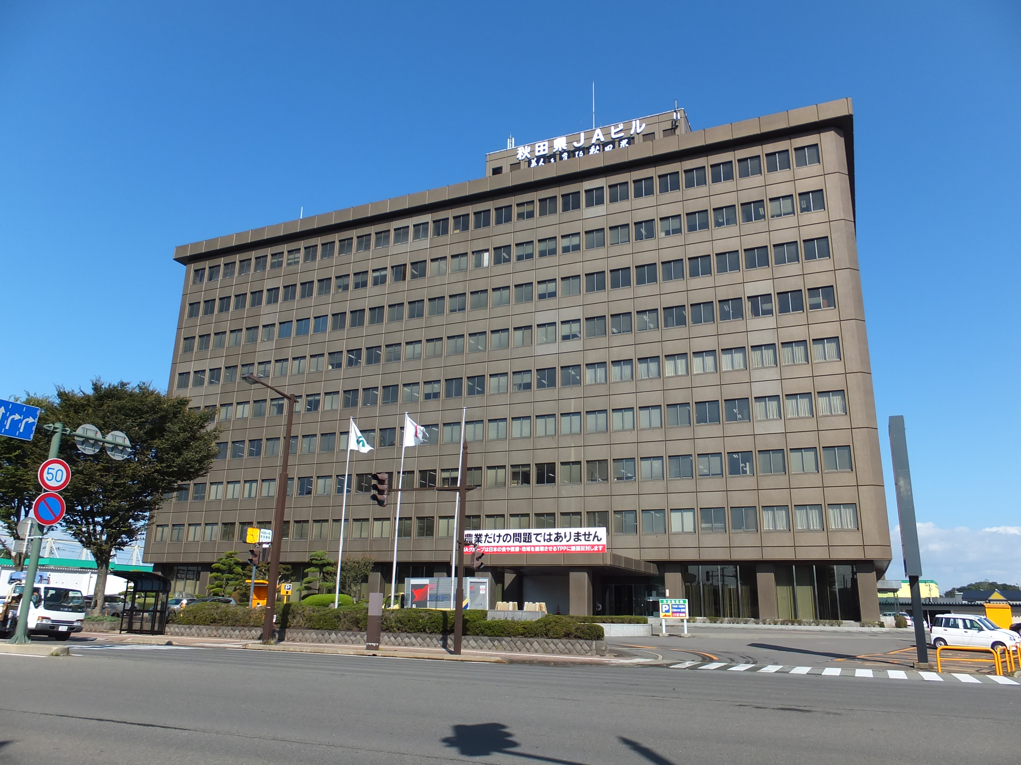 Akita JA Building in the city of Akita, Japan